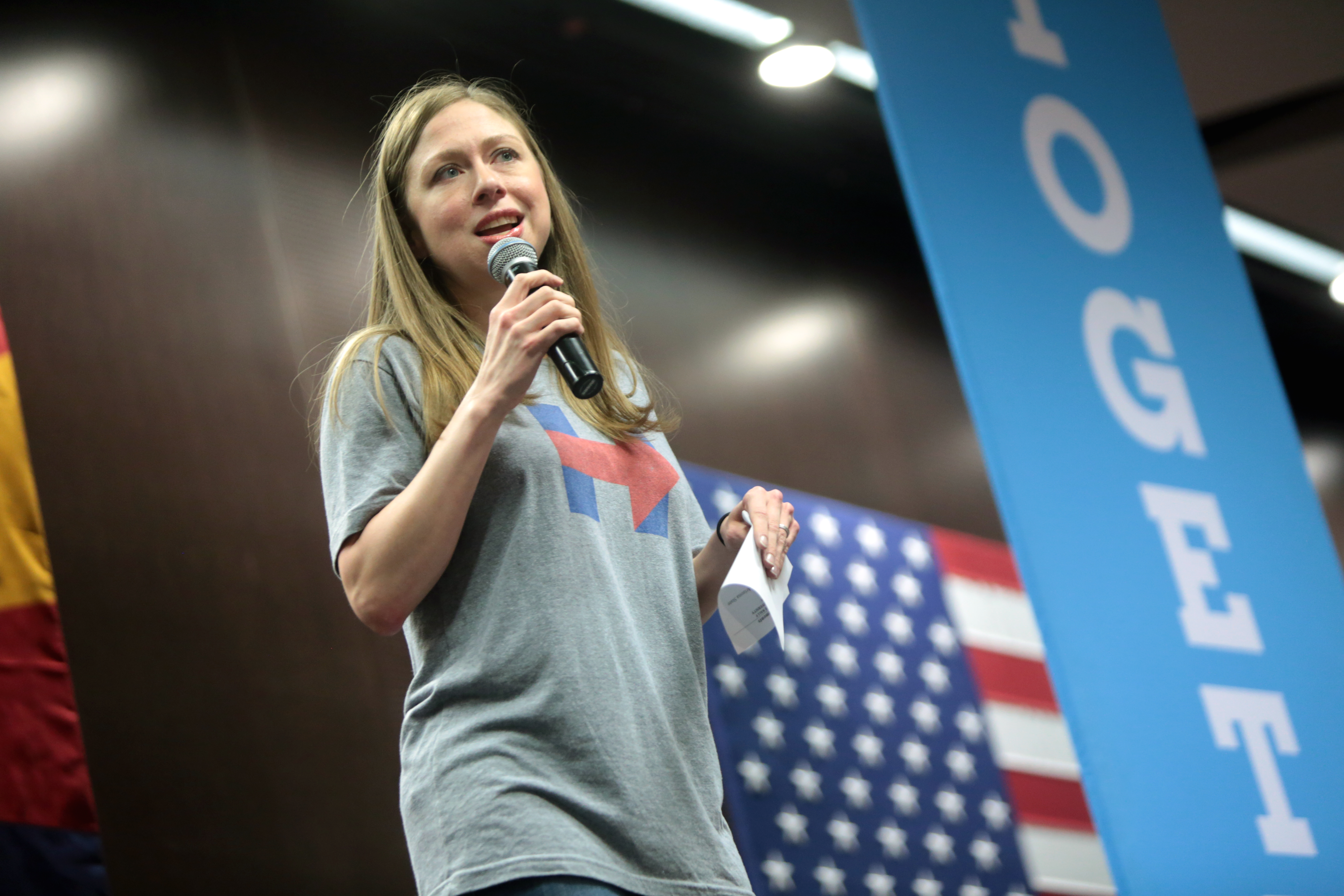 Chelsea Clinton speaking with supporters of her mother, former Secretary of State Hillary Clinton, at a campaign rally at the Memorial Union at Arizona State University in Tempe, Arizona.